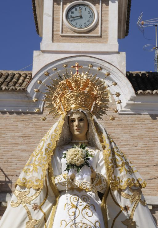 Ntra. Señora de Gracia.